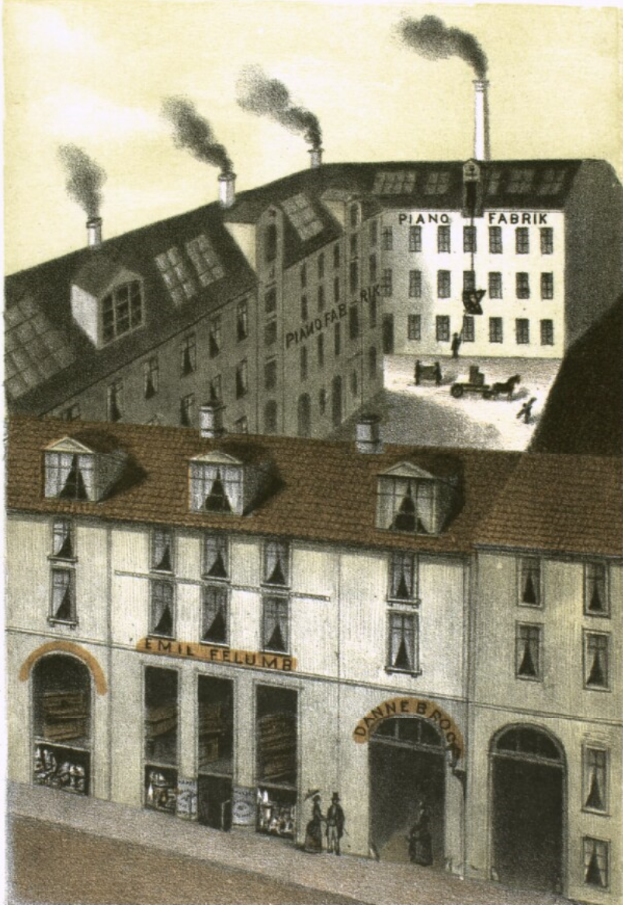 J. E. Felumb's piano factory at Vestergade 20 in Copenhagen, Denmark